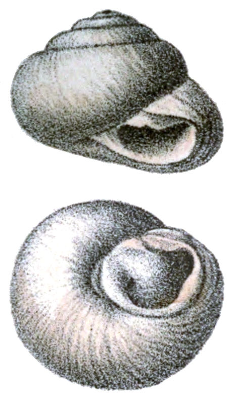 Drawing of the shell of Sphincterochila boissieri.